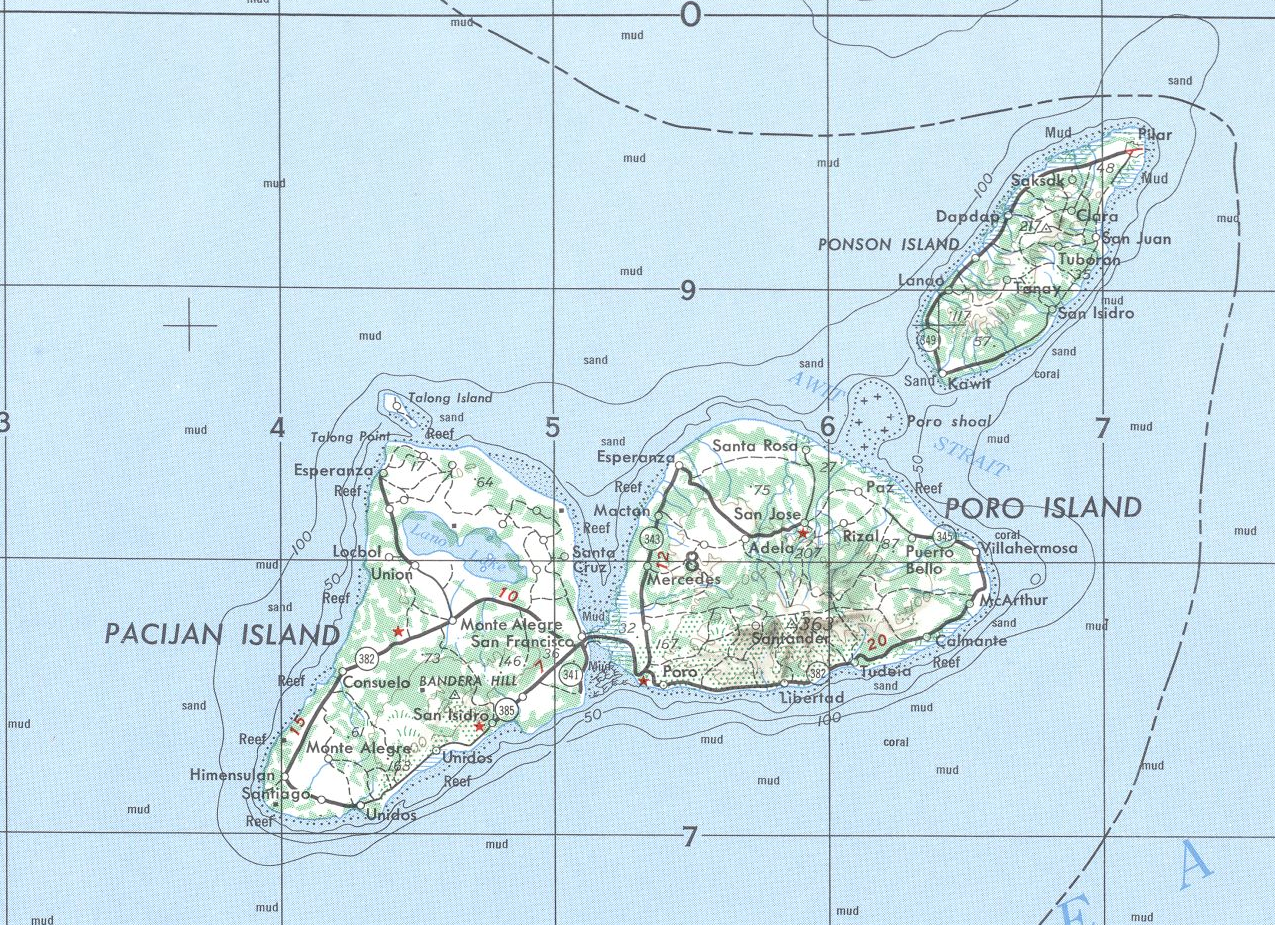 Map showing the Camotes islands. This map was prepared by US Army Mapping Service and issued in 1955, so its use is limited. The main island features remain unchanged.